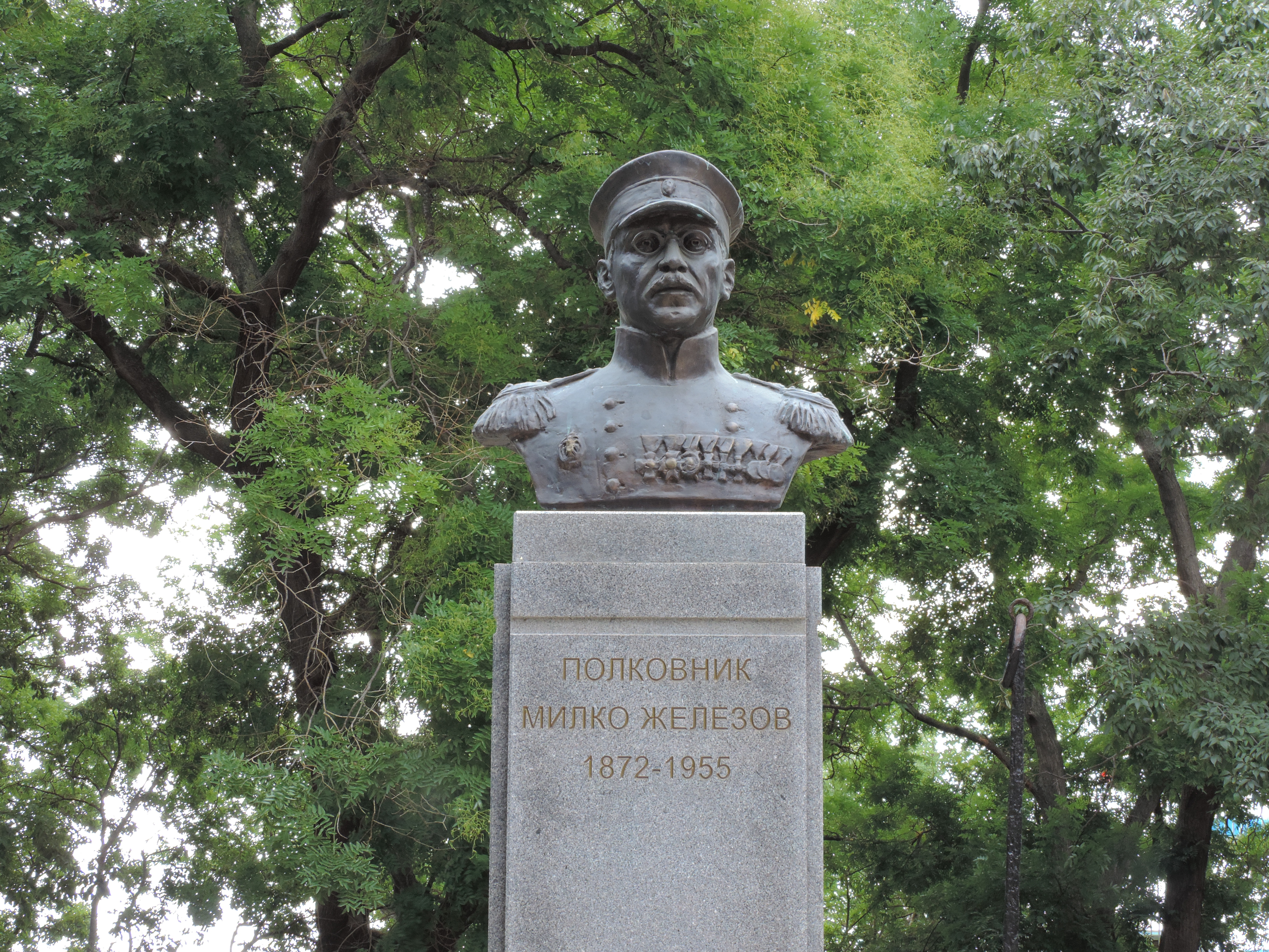 Naval Museum in Varna, Bulgaria